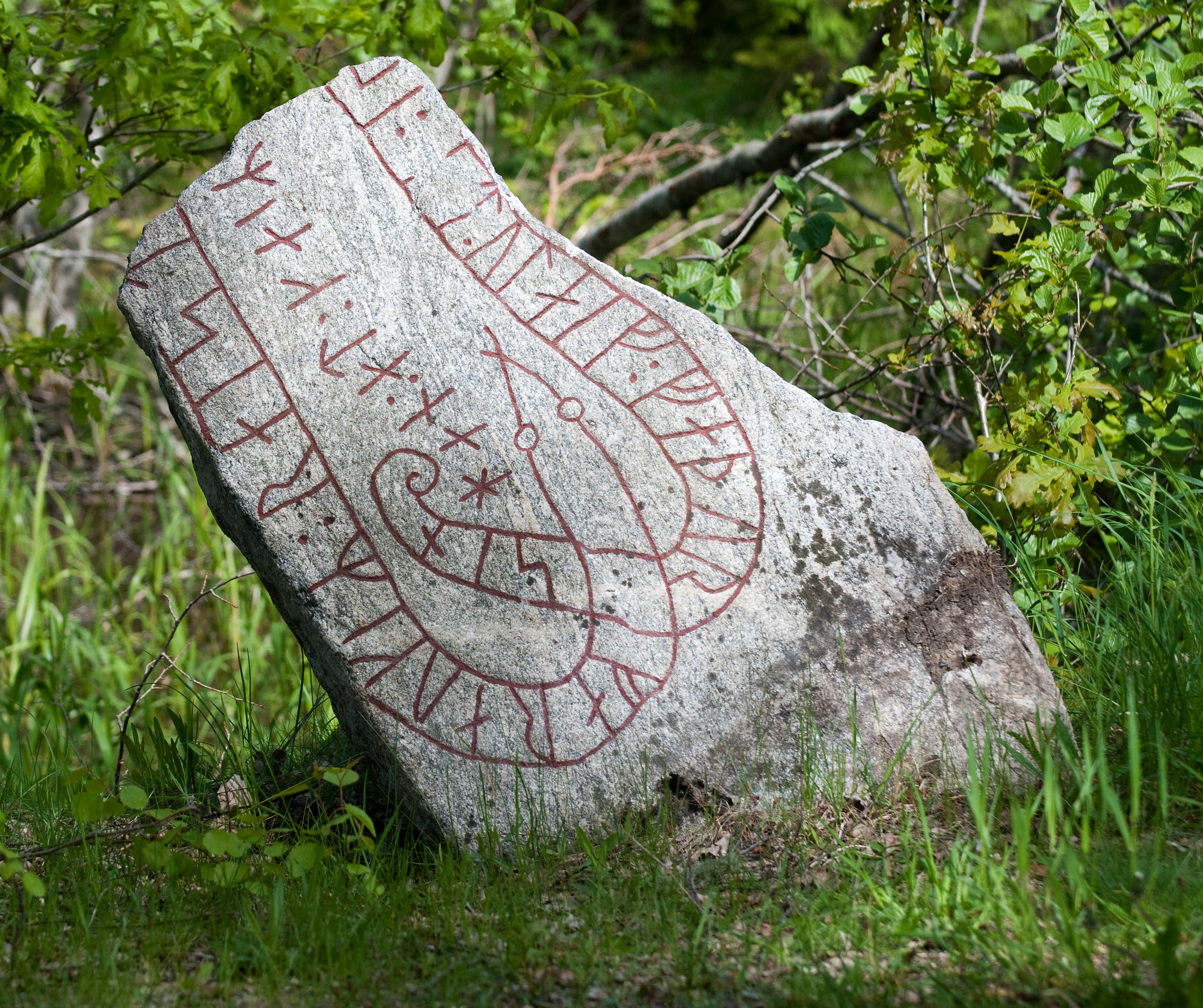 Rune stone at Mälsundet in Bettna, Flen